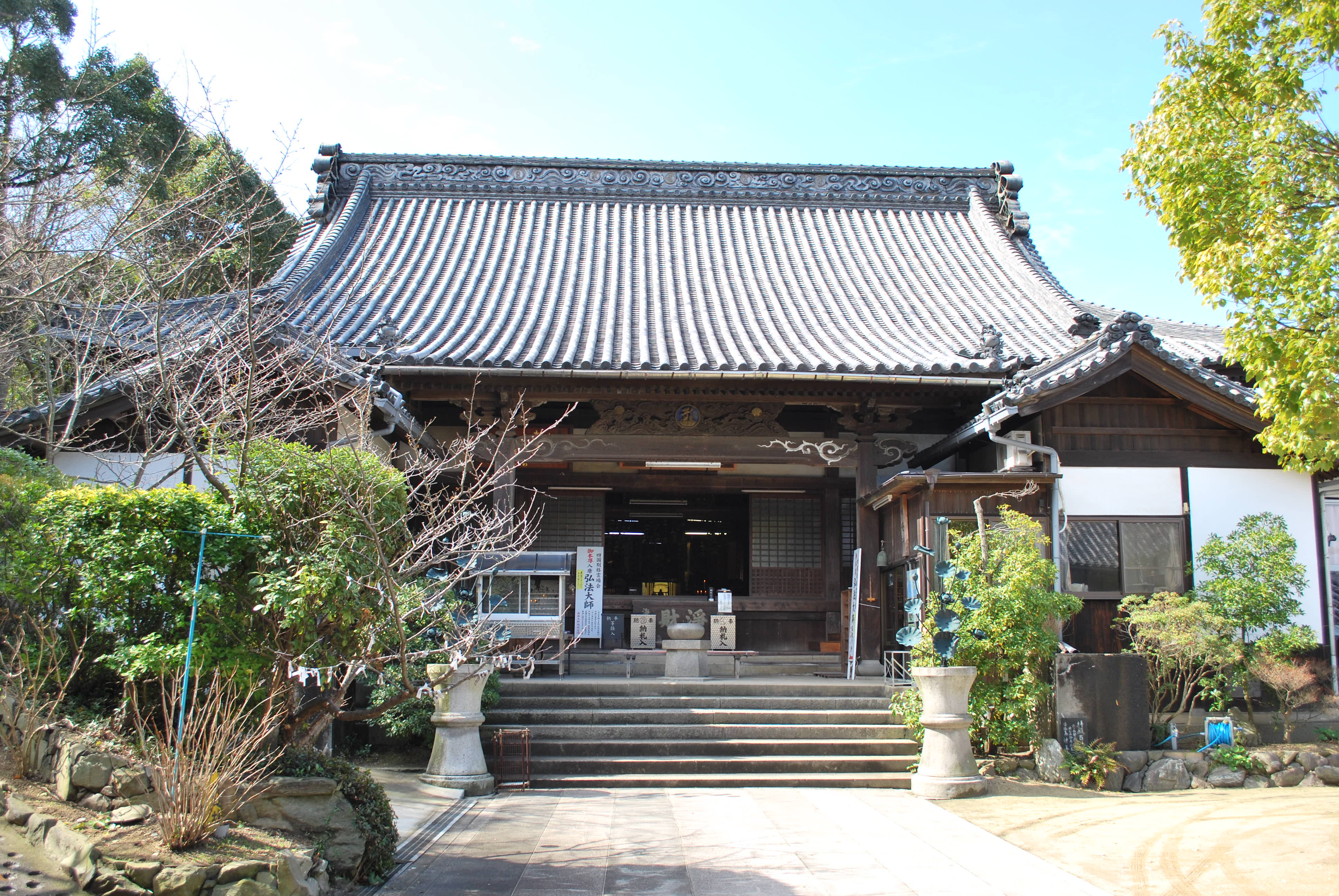 Daishi-dō, Kaigan-ji Okuno-in